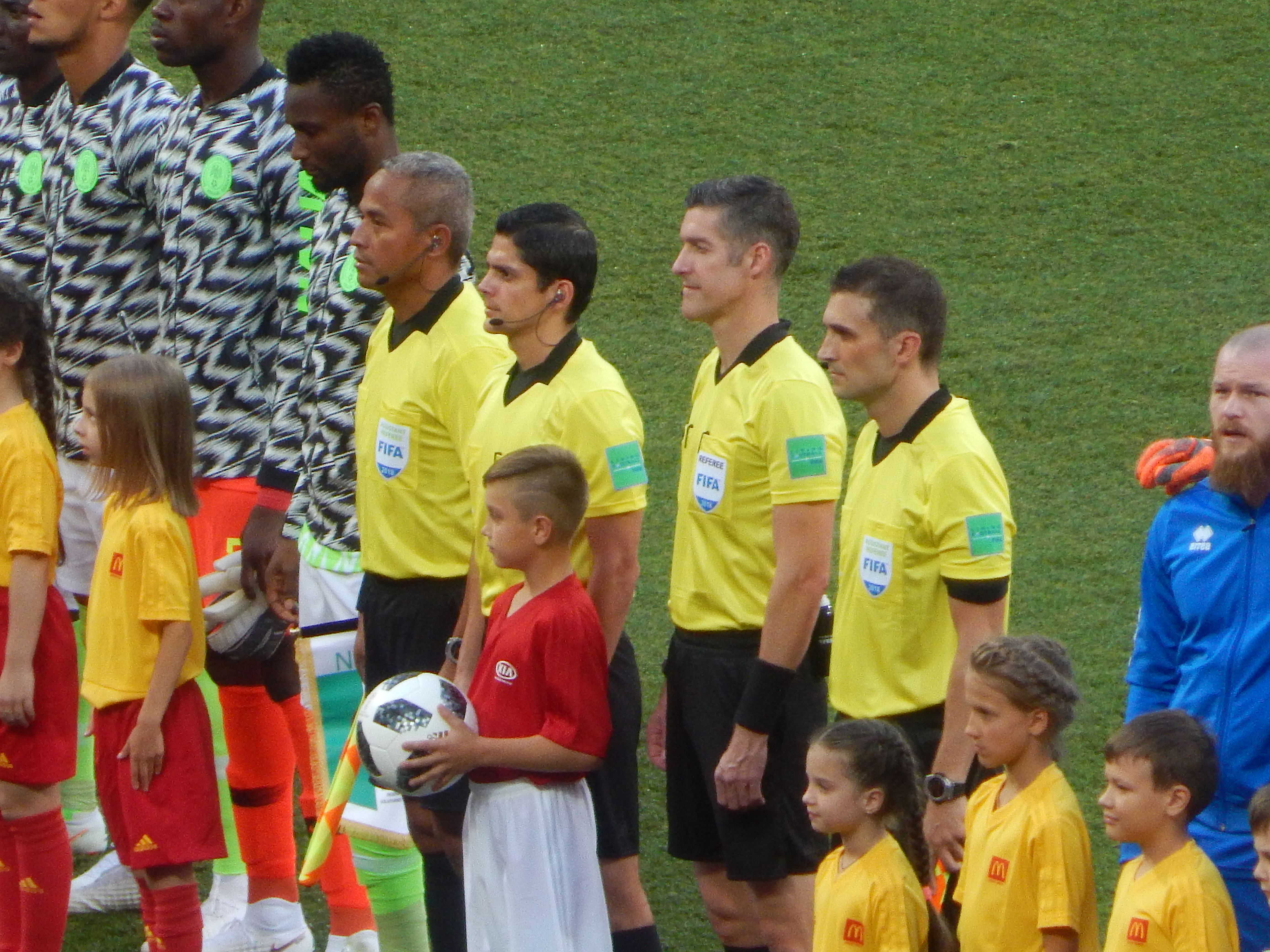 FIFA World Cup 2018, Group D, Nigeria vs. Iceland